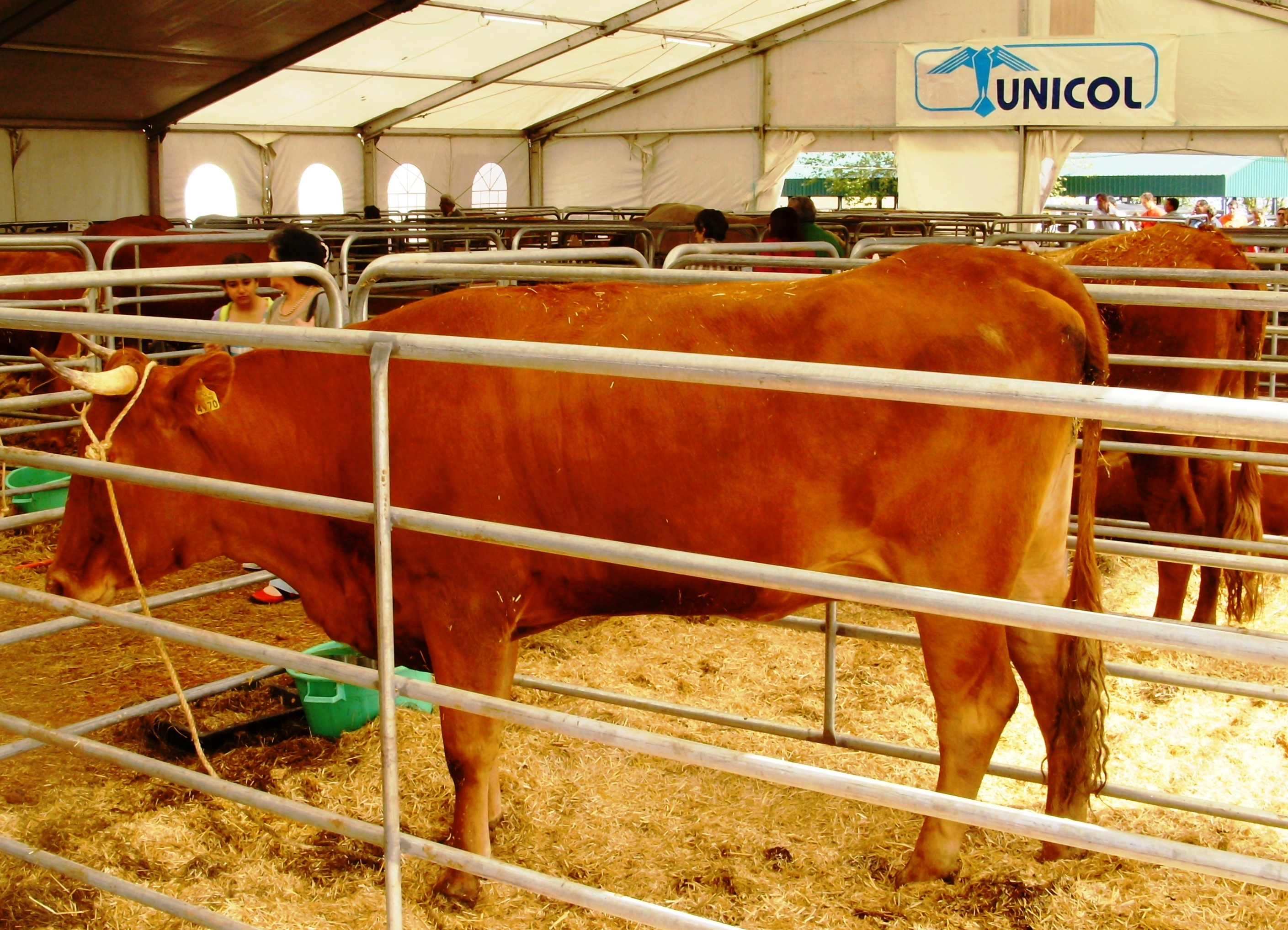 An example of the Ramo Grande cattle at the 2010 Agricultural Fair in the municipality of Angra do Heroísmo (Azores), Portugal